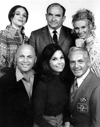 Publicity photo of the cast of The Mary Tyler Moore Show in 1970. From left: Top: Valerie Harper (Rhoda Morgenstern), Ed Asner (Lou Grant), Cloris Leachman (Phyllis Lindstrom). Bottom: Gavin MacLeod (Murray Slaughter), Mary Tyler Moore (Mary Richards), Ted Knight (Ted Baxter).